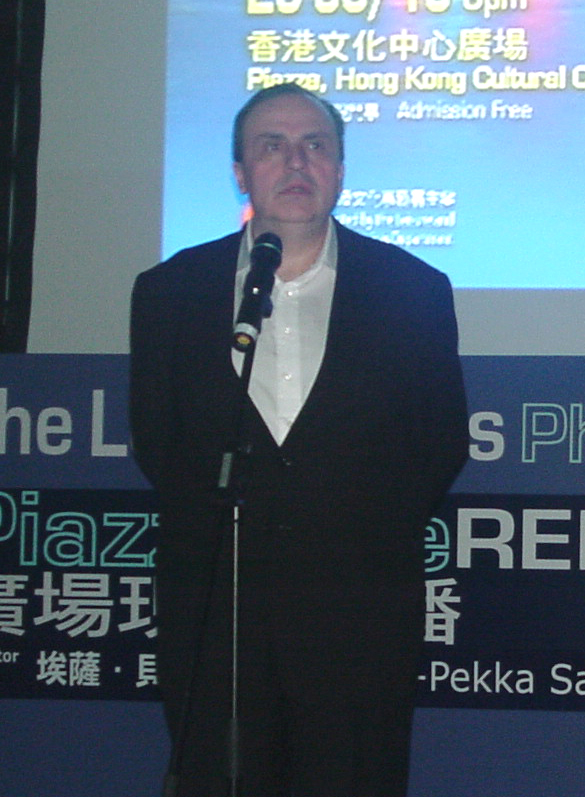 Yefim Bronfman (on the left) at the Los Angeles Philharmonic concert in Hong Kong Cultural Centre on 29 October, 2008.